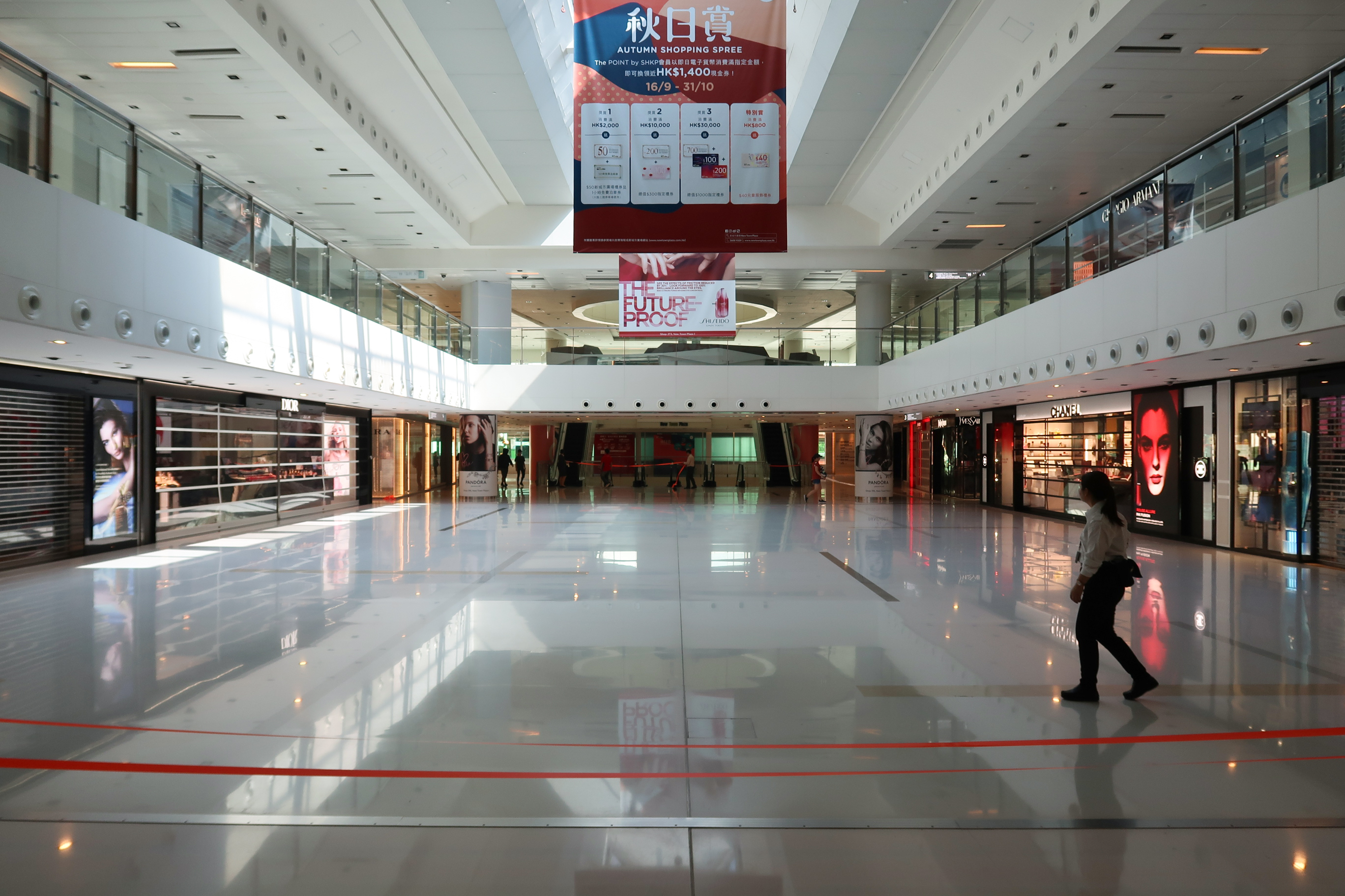 New Town Plaza Level 3 public access blocked